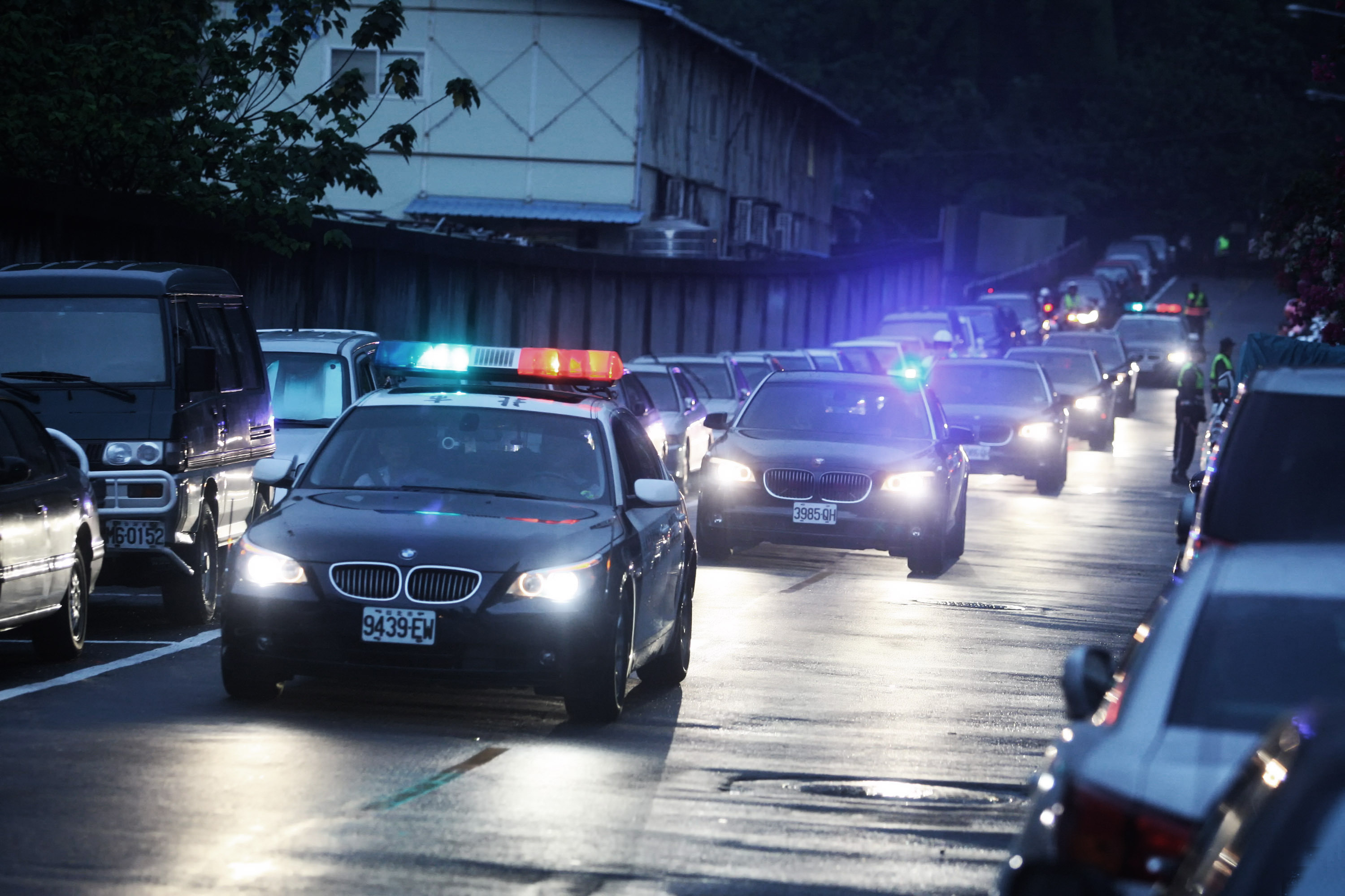 The Presidential Motorcade of Taiwan, being escorted by Taipei City Police.